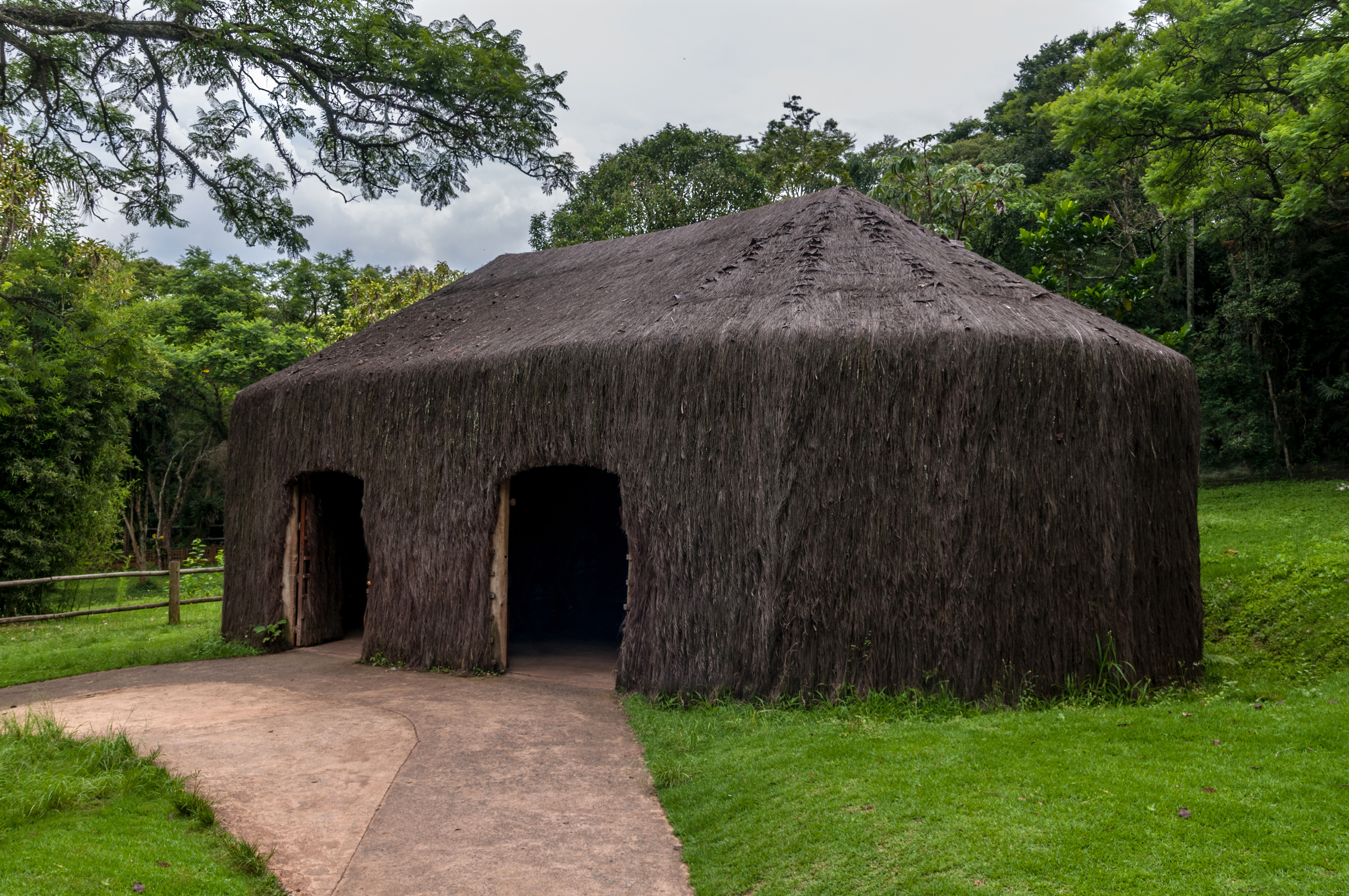 Oca is the name given to the typical Brazilian indigenous housing. The term comes from the Tupi-Guarani language family. The hollow constructions are large, and may reach 30 m in length. Mutirão are built over about one week, with a wooden structure and bamboo and straw cover or palm leaves. They can last 15 years. They have no internal divisions or windows, only one or a few doors and serve as collective housing for several families.